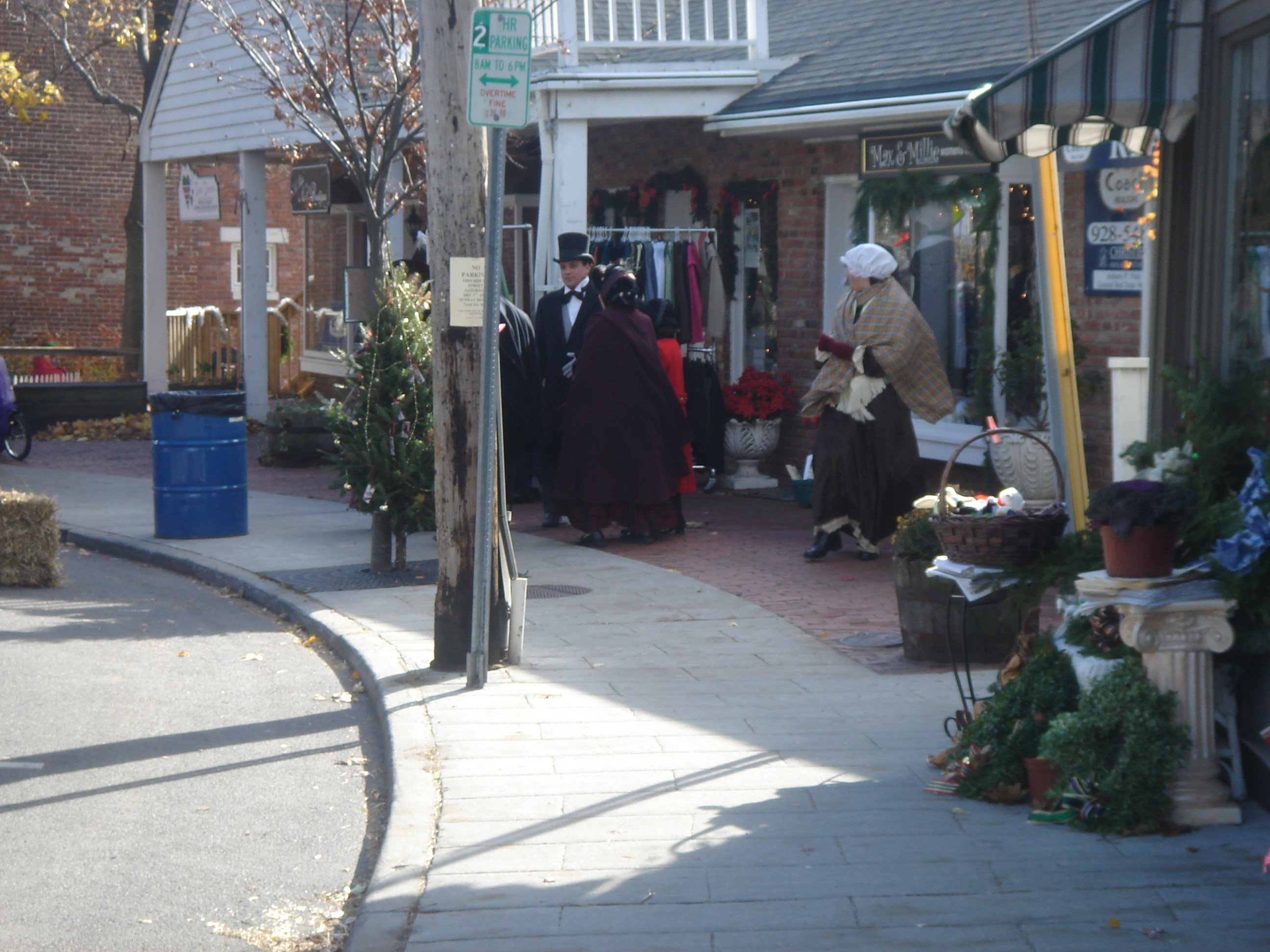 Charles Dickens Festival in Port Jefferson, Long Island.